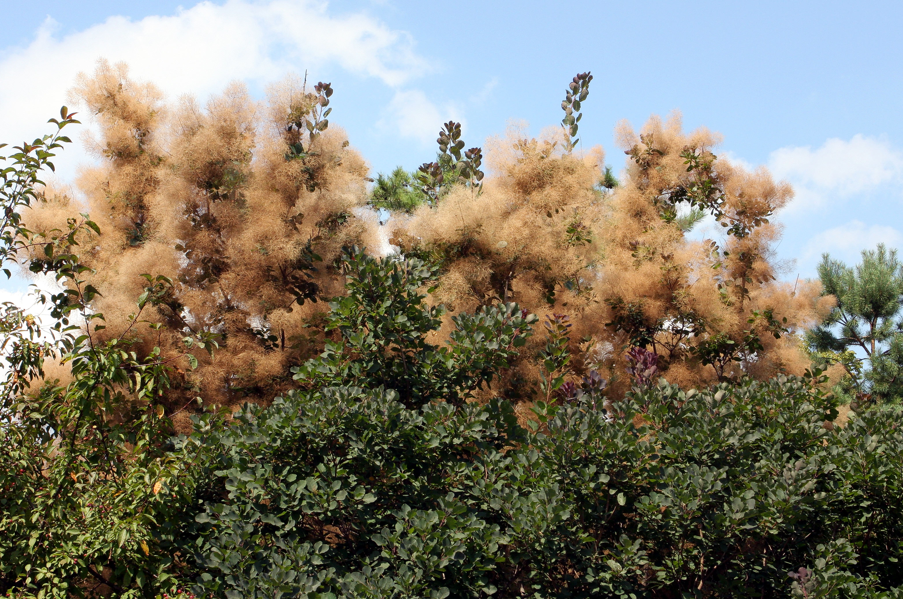 Self made image, taken in late summer. Shows smoke like look of Cotinus coggygria.